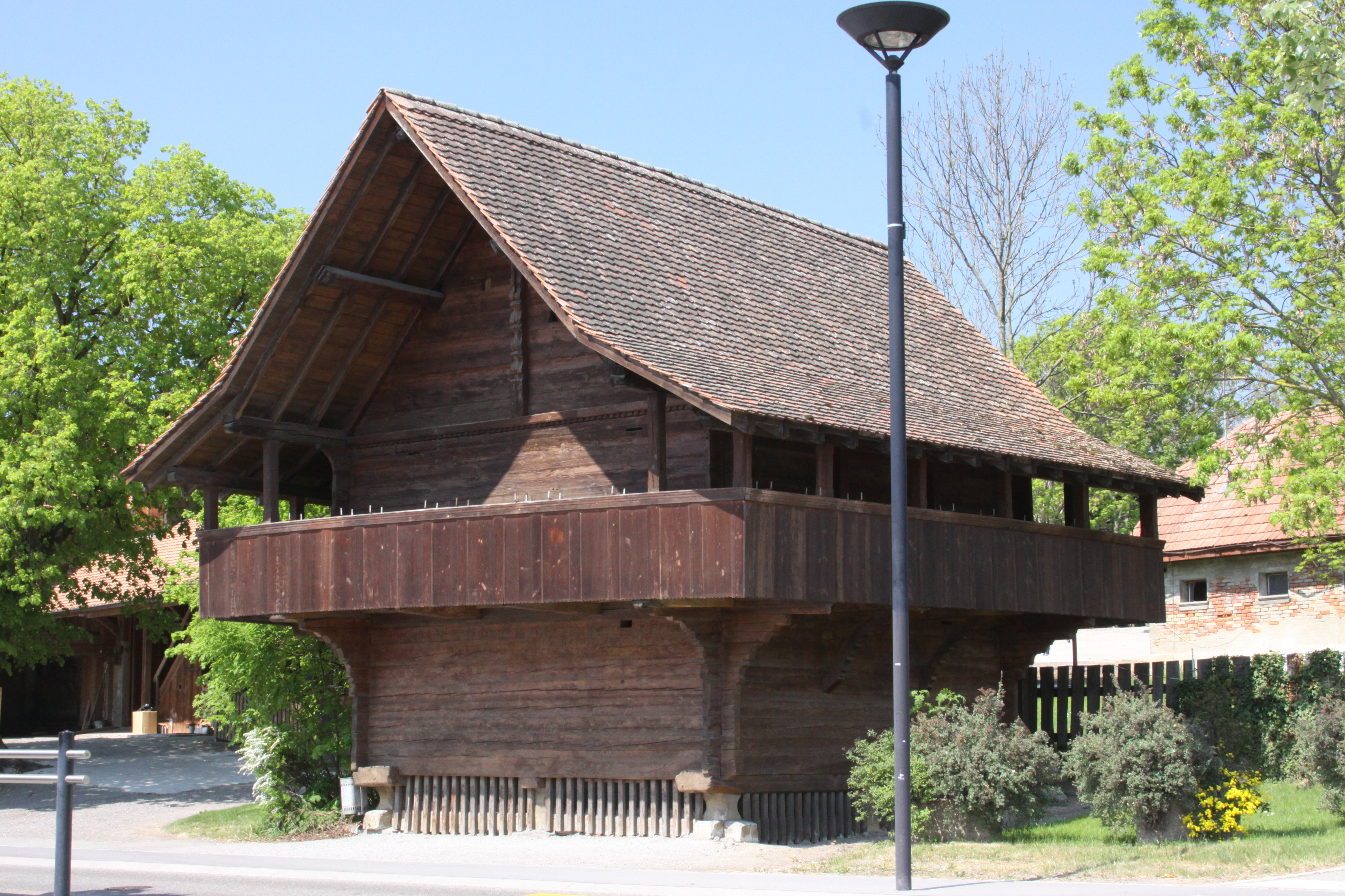 Granary of the Schaller Farm, Route du Centre 4a, Corminboeuf